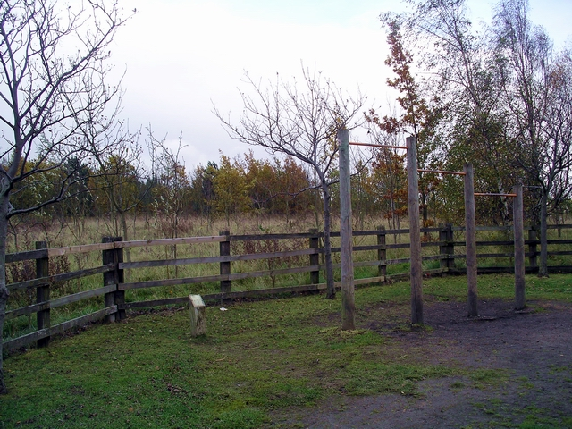 Fitness track, Shipley Country Park One of a series of apparatus around the south side of Cinderhill Coppice. We forbore to put them into use on this day, though. Whilst the ground under these chin-up bars was relatively dry, a slip of the hand or foot on most of the other stages along the track would have resulted in one landing in a big puddle.